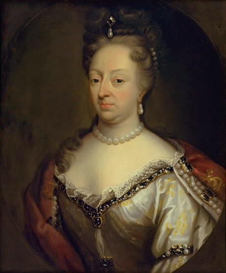 Portrait of Charlotte Amalie of Hesse-Kassel (1650-1714)